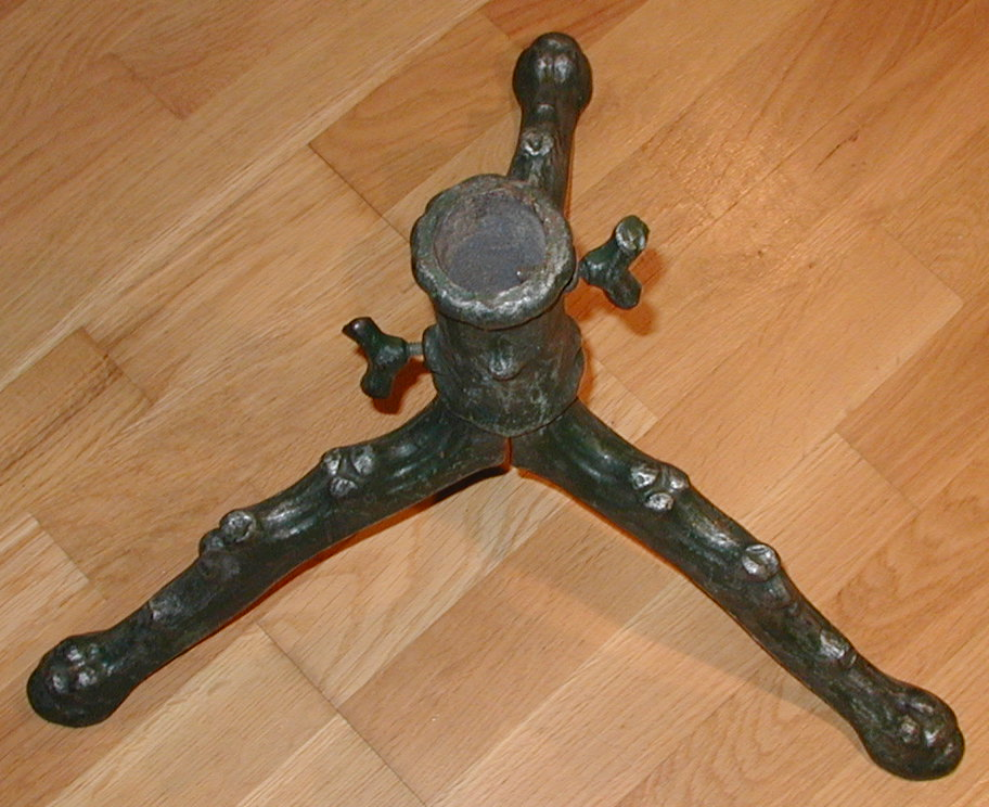 Christmas tree stand, from Vienna (Austria) consisting of several parts that can be fixed together. Picture taken and uploaded by Roger McLassus (owner).